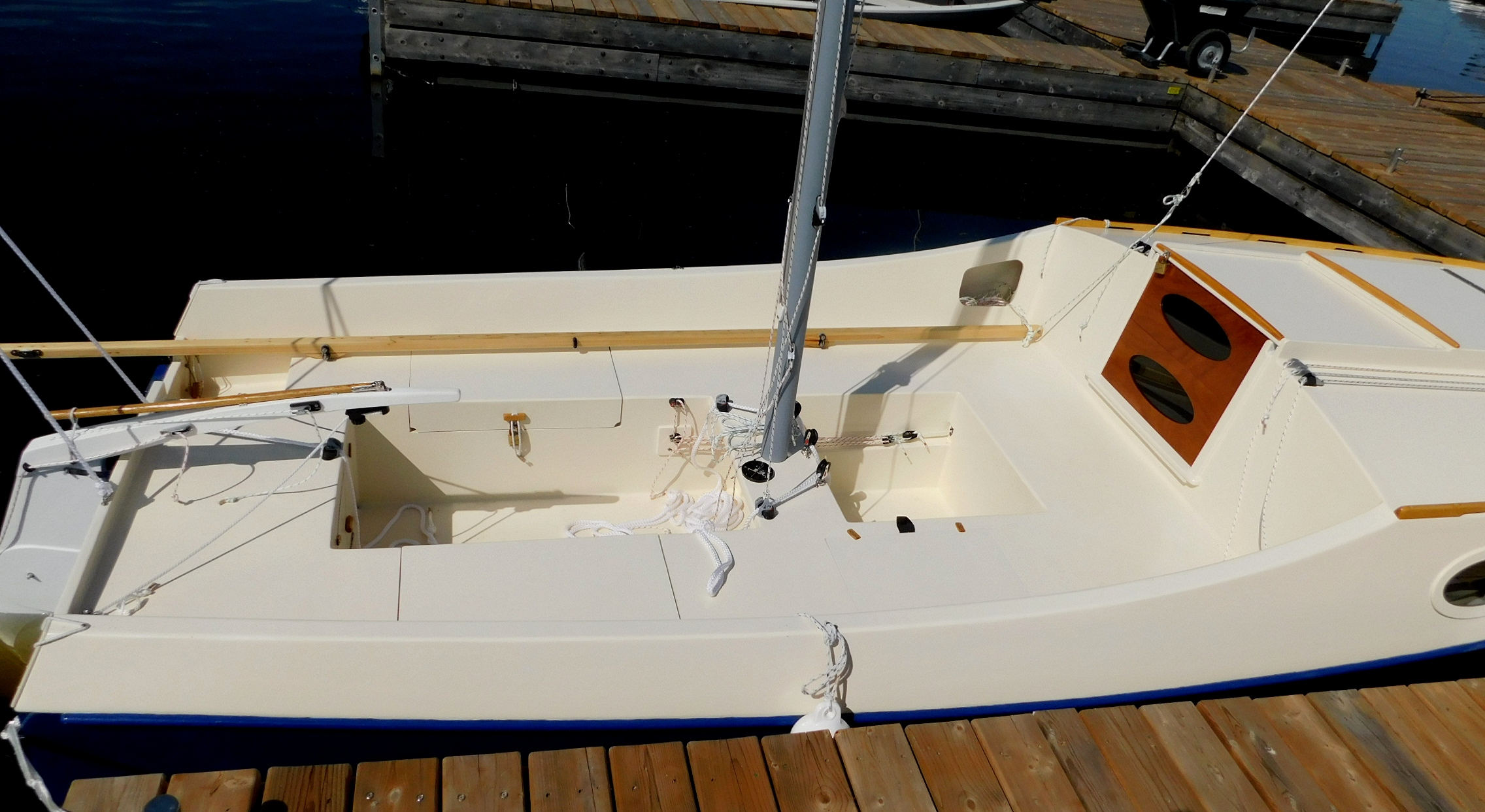 The cockpit of a Core Sound 20 Mk III sailboat named Nimbus 2020.